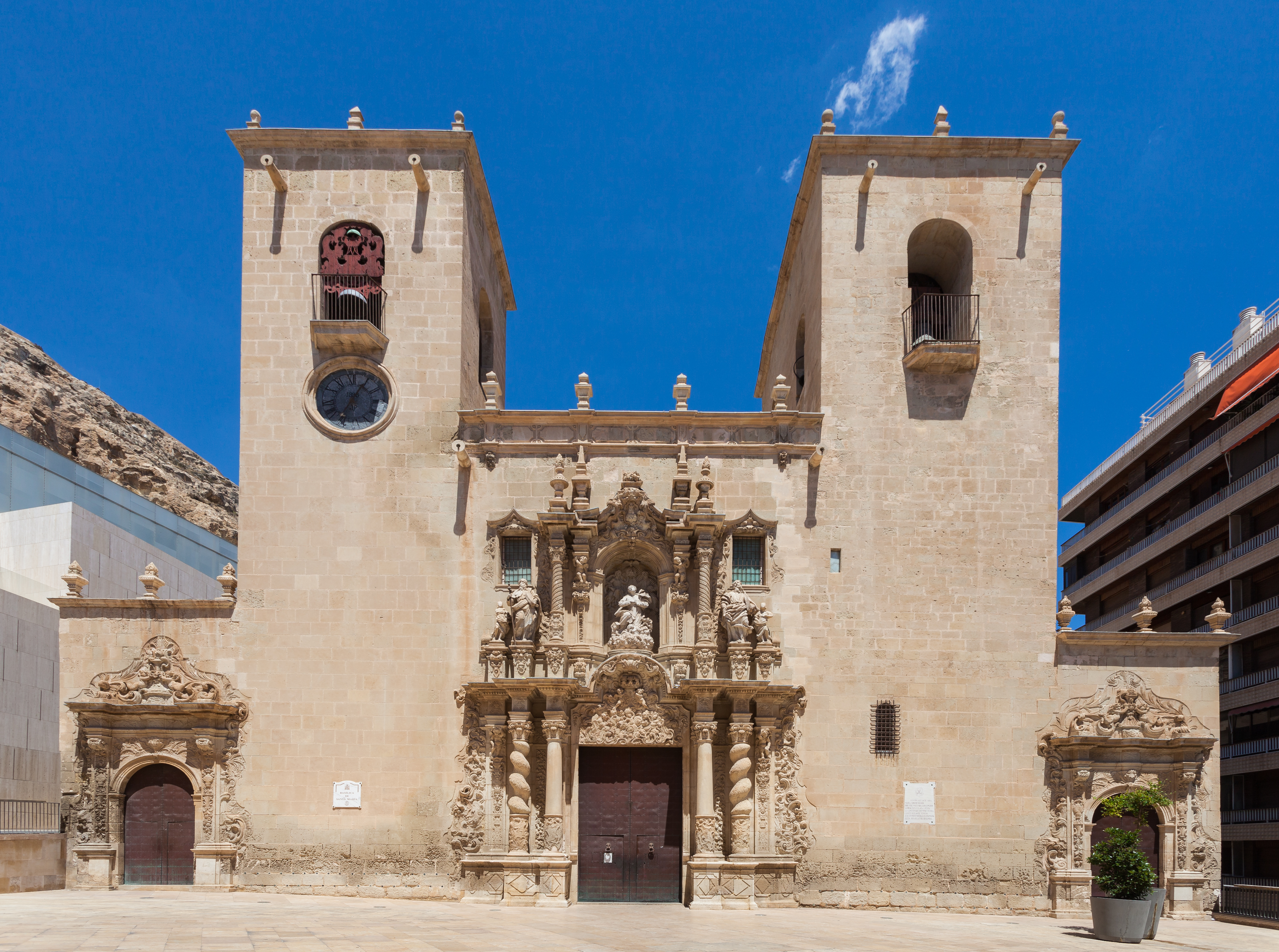 Basilica of St Mary, Alicante, Spain